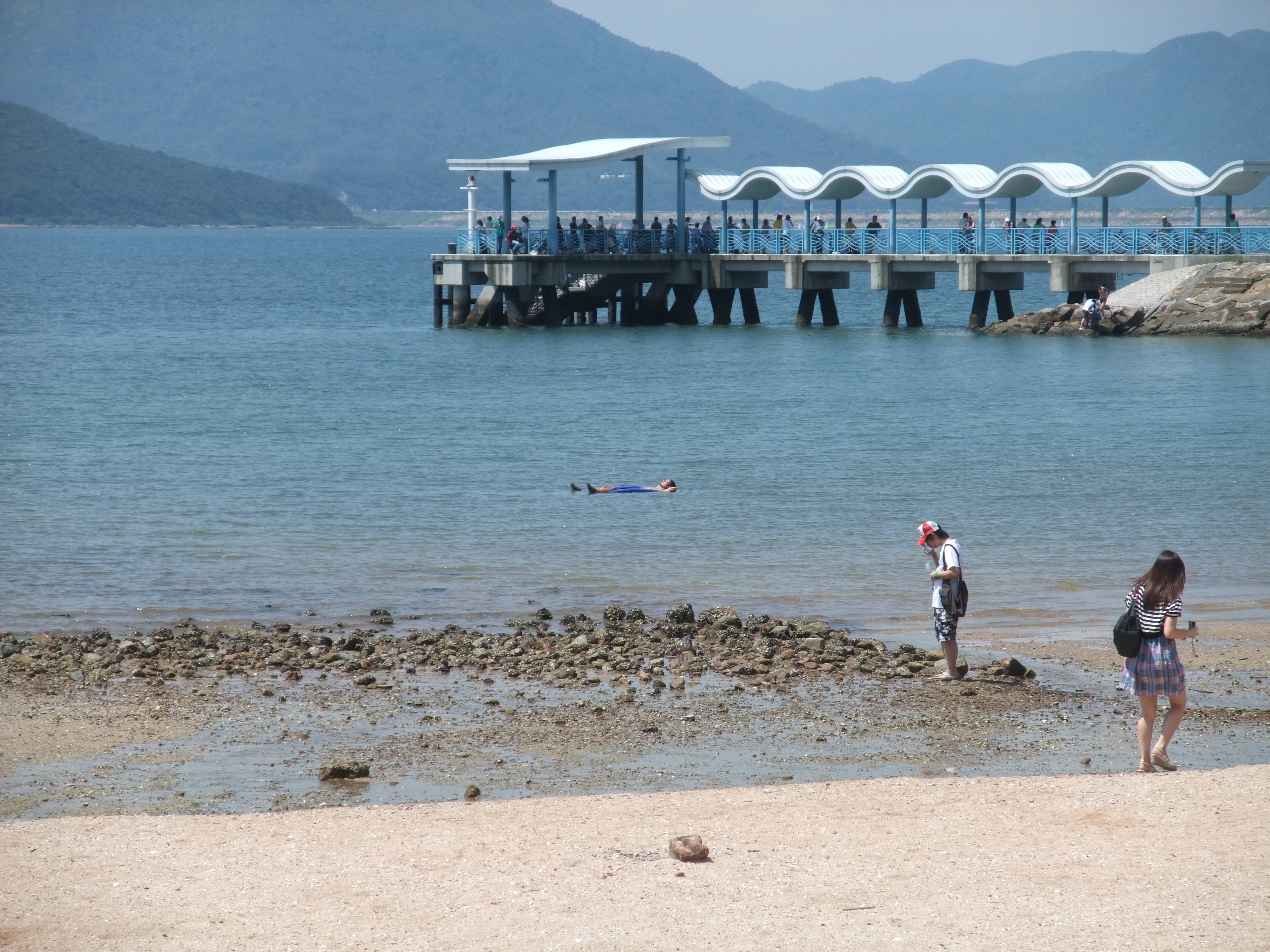 Photo of Wu Kai Sha Public Pier